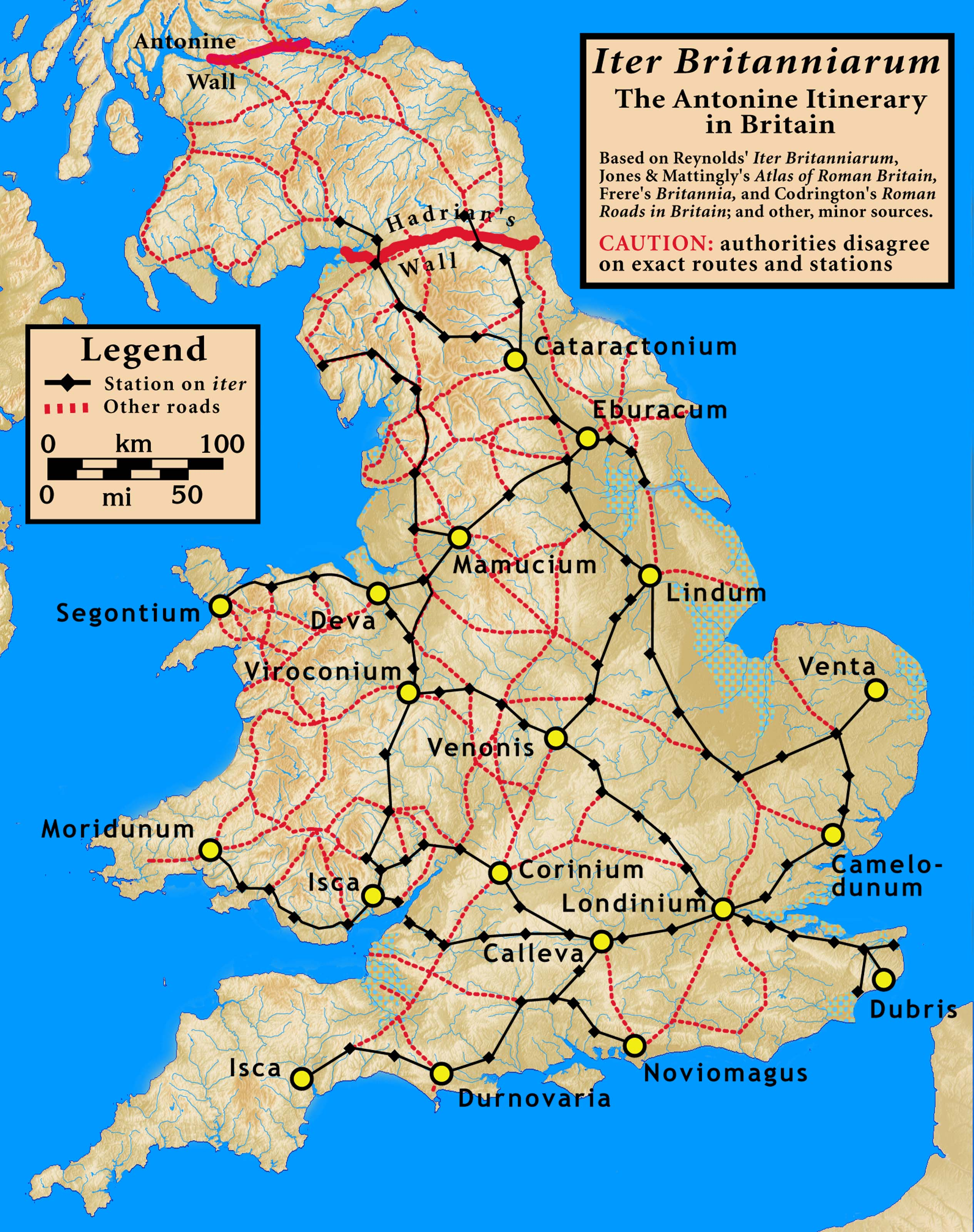 The Iter Britanniarum, The Antonine Itinerary in Britain